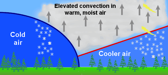 A Diagram i made after i saw a freak thunder snow in the plains.